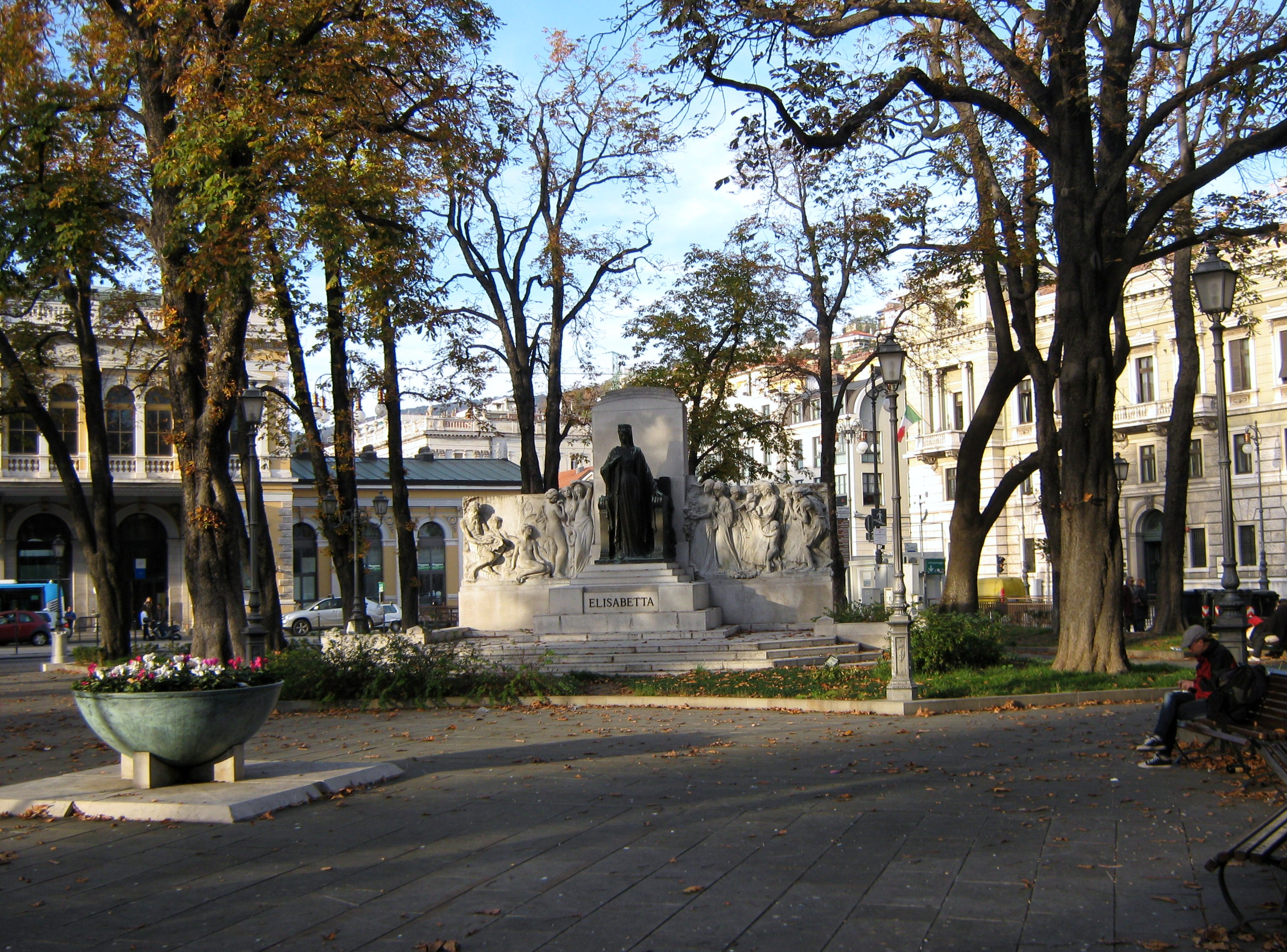 Memorial to Empress Elisabeth of Austria in Piazza della Libertà in Trieste, Italy